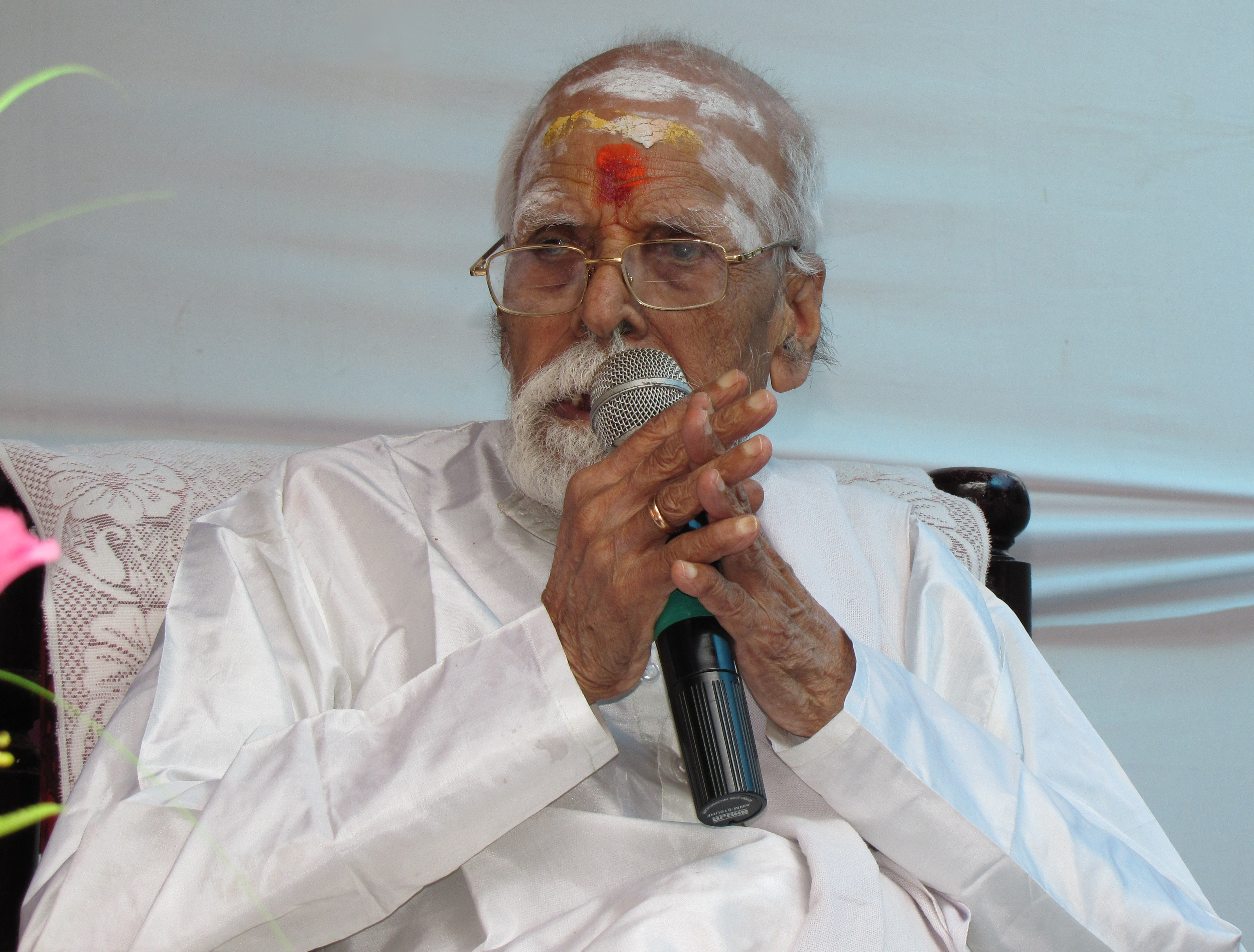 V Dakshinamoorthy speaking during an inauguration function at a Muchillottu Temple in Koovery(a village in Kannur district)